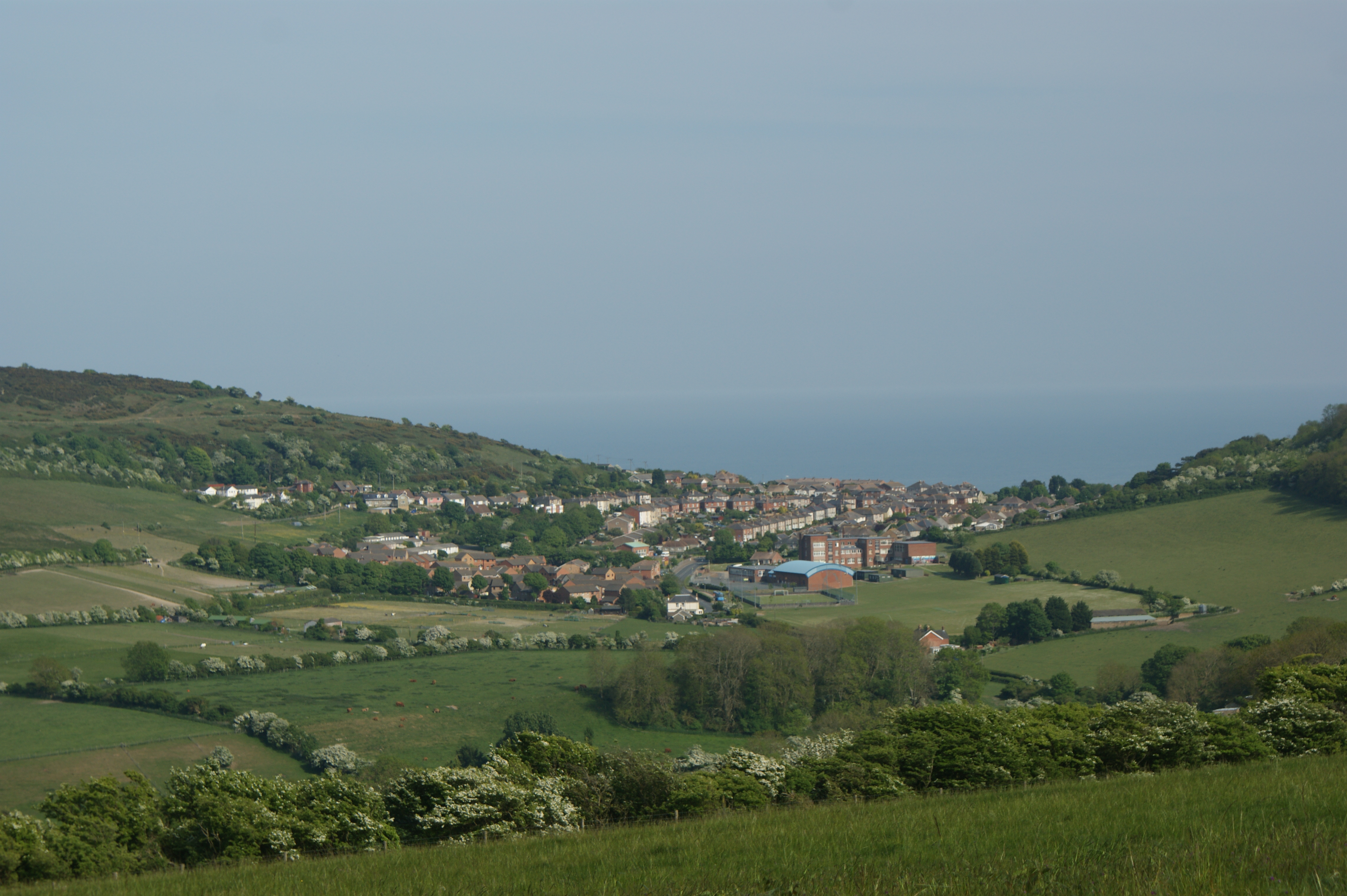 Ventnor, Isle of Wight, seen from the top of Rew Down.